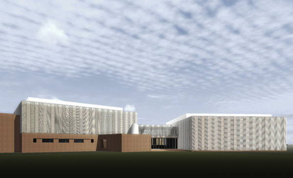 A modern MEC STUDENT HUB with a buildup area of 6800 square metres will be open by Spring 2016.